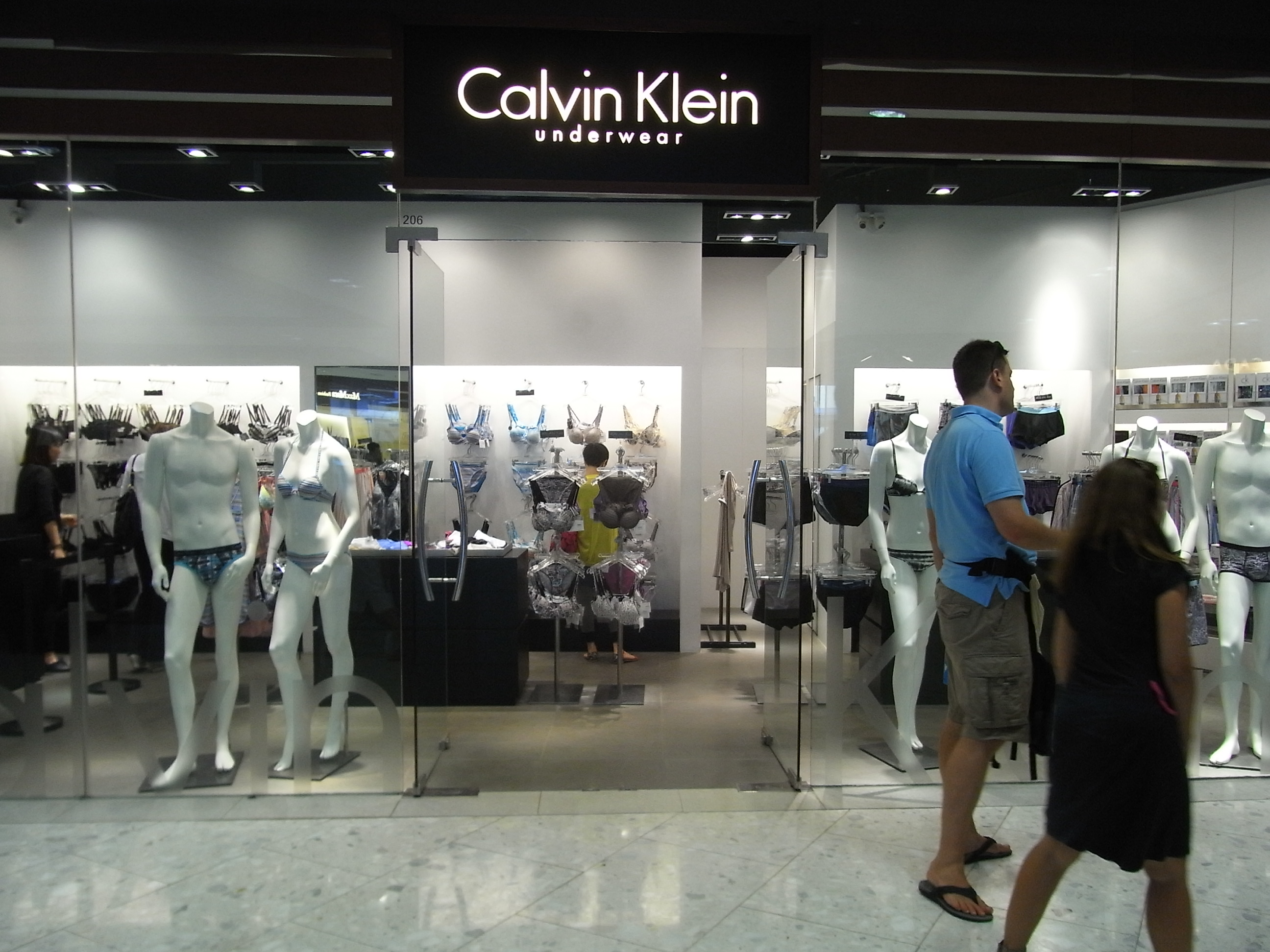 Shop in CityGate Outlets, Tung Chung, Lantau Island, Islands District, Hong Kong